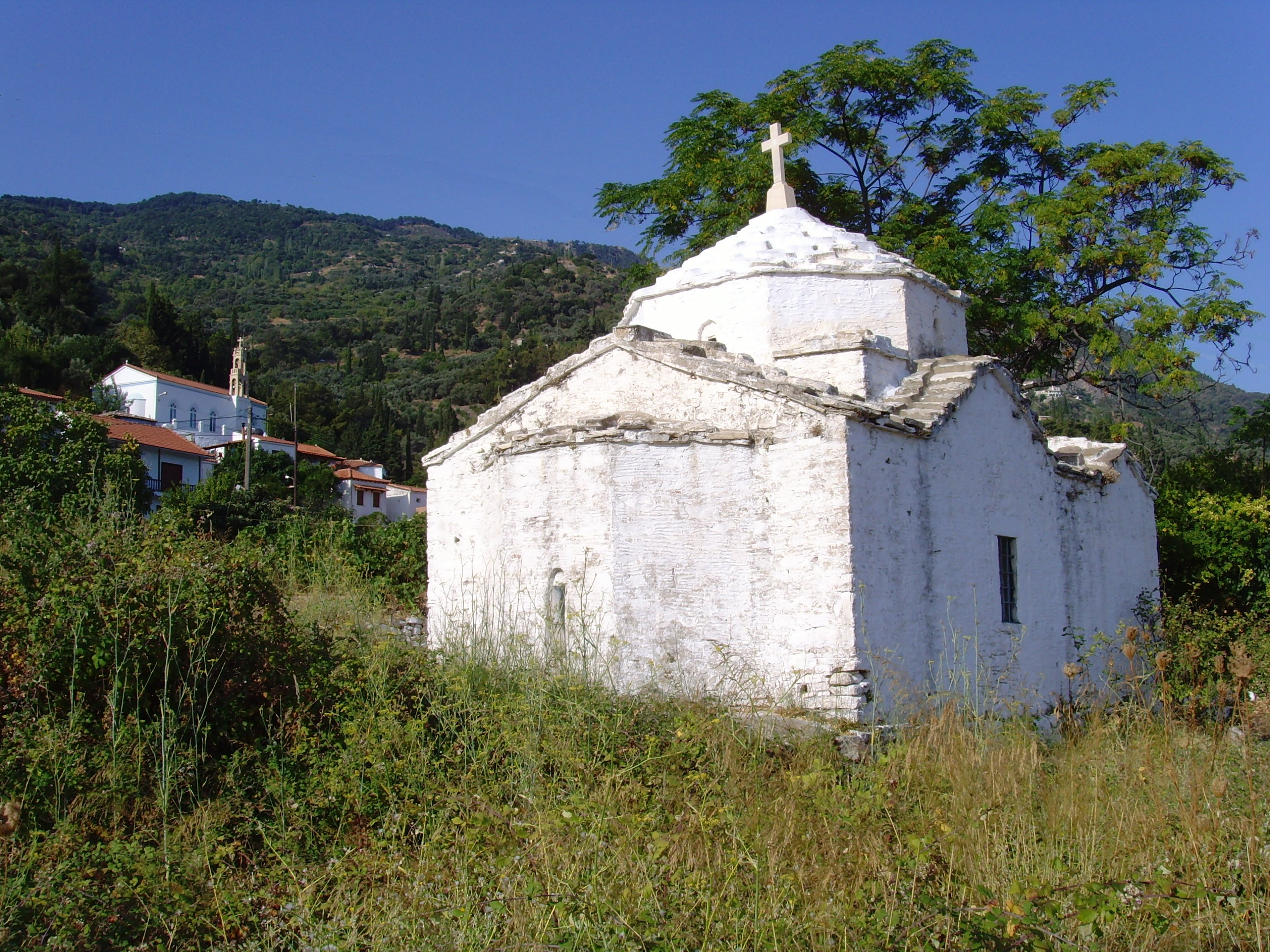 Pano (Upper) Agios Konstantinos church and village